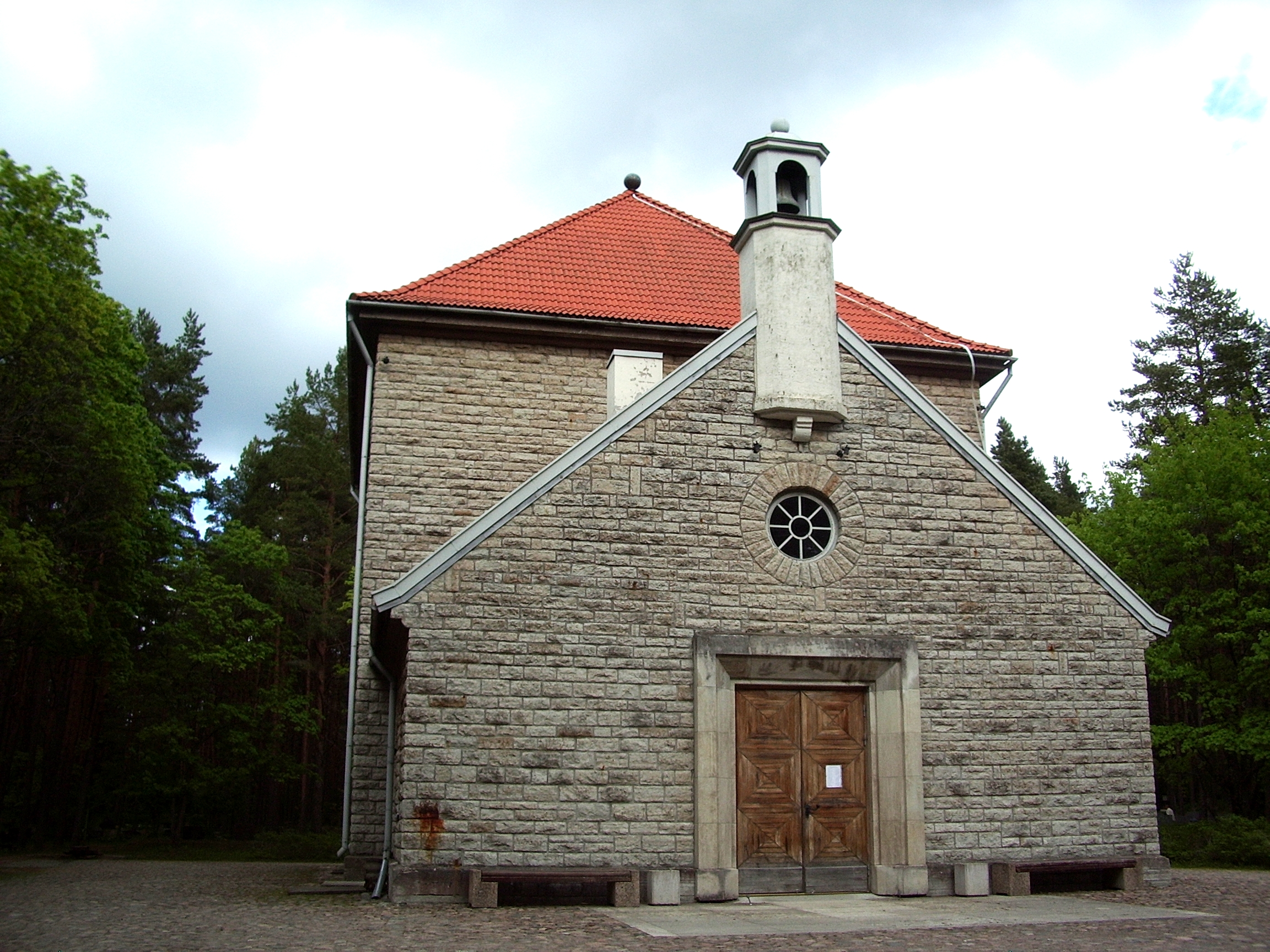 A chapel in cemetary Metsakalmistu. Architect Herbert Johanson (1884-1964).